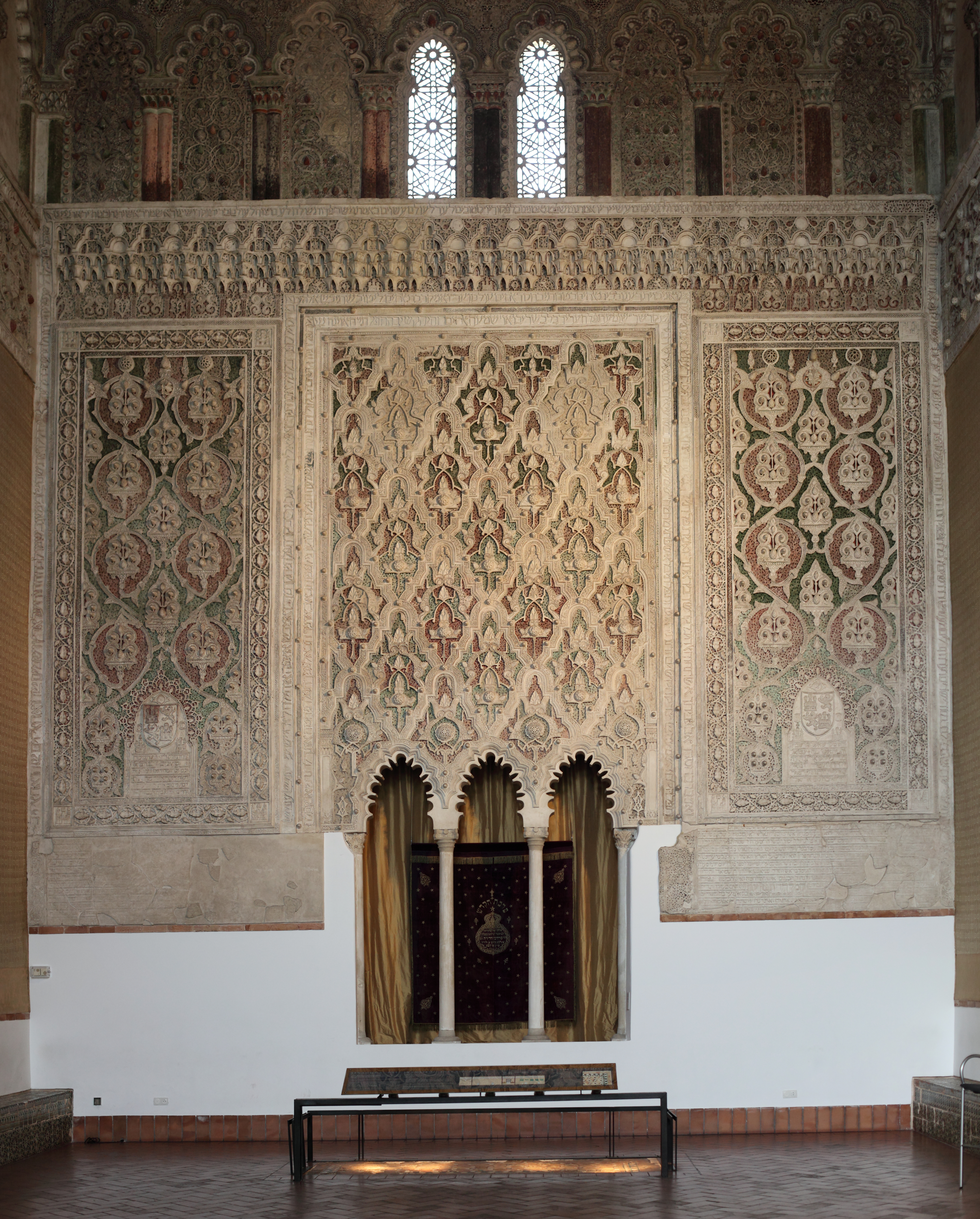 La Gran Sala de Oración (Sinagoga del Tránsito, Toledo)